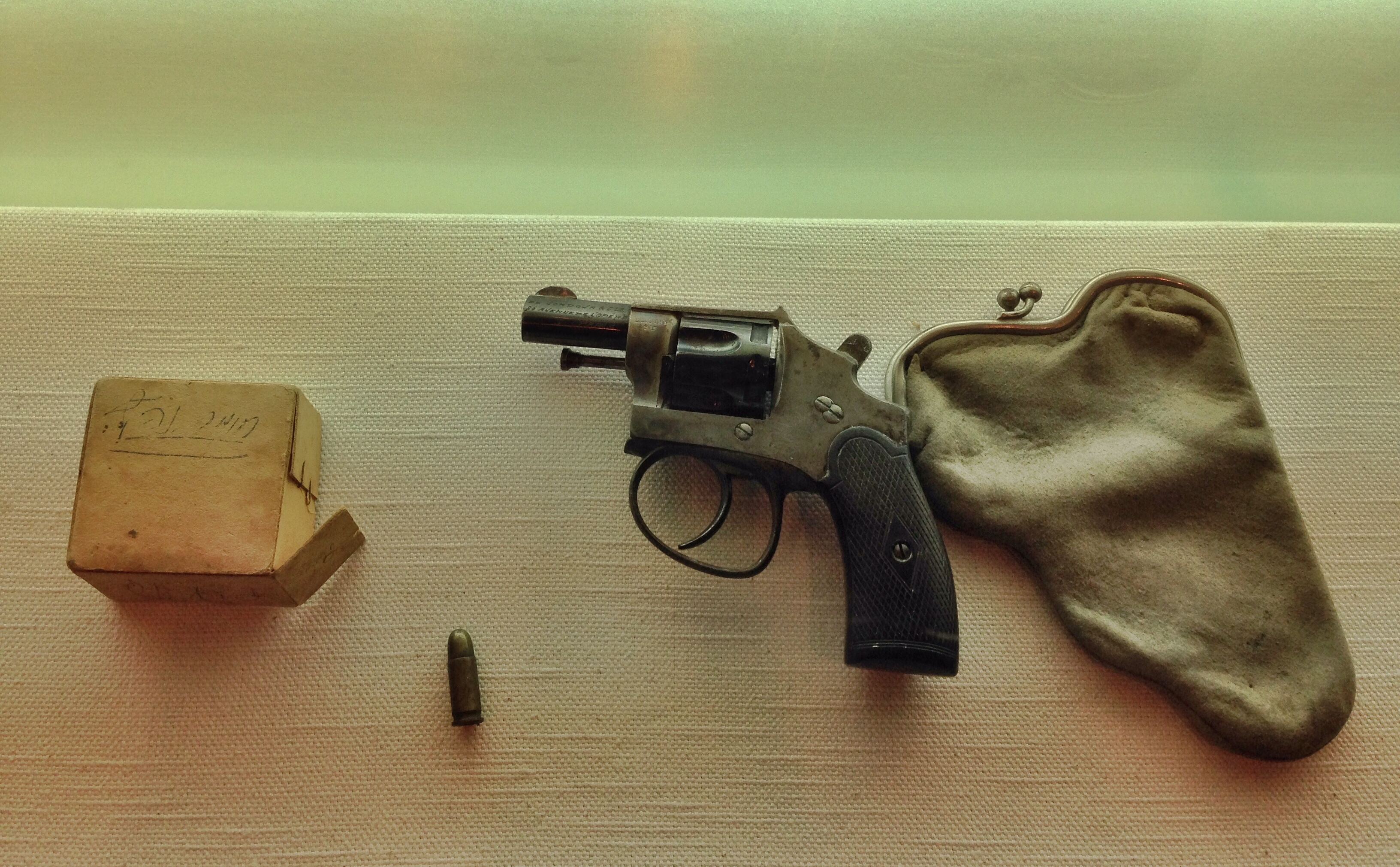 A revolver Sarah Aaronsohn used to commit suicide. It is displayed at the Beit Aaronsohn museum in Zikhron Yaakov, Israel.